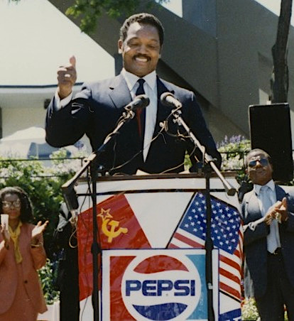 Jesse Jackson making a speech at the Goodwill Games, Seattle, Washington, U.S., 1990. Trying to sort out (via Facebook contacts) who else is in this photo. Seattle historian Rob Ketcherside says "Man on the right may be Bob Walsh... the girls on the right are the 'Soviet and Seattle Youth Choir Exchange, featuring the Schedrik Choir (Soviet) and the Seattle Girls' Choir and Northwest Choir'". Someone also passed along from a third party I don't know, "Jasmine Jackson, Alaina Caldwell and Eula Scott" but didn't identify which they are. - Jmabel ! talk 20:01, 1 June 2016 (UTC) Photos on Bob Walsh's web site confirm that identification.